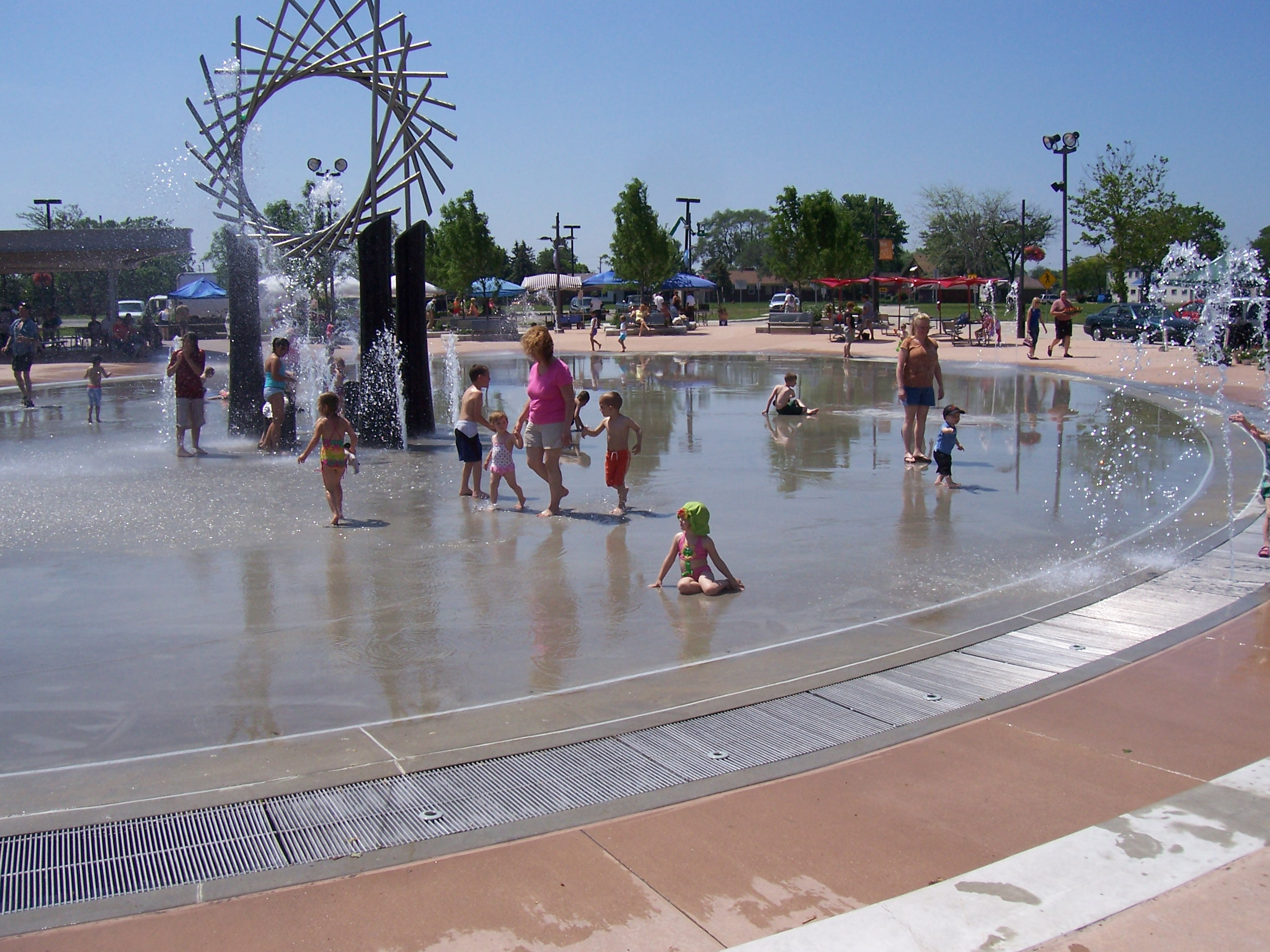 Author's own picture, no copyright